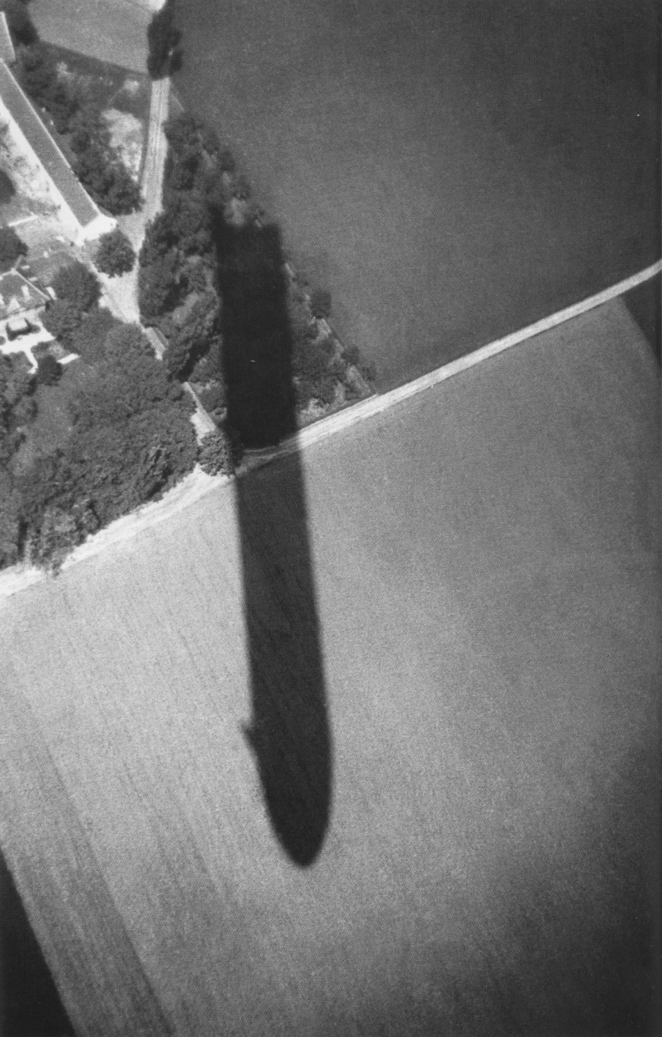 Shadow of a Zeppelin, taken from the aircraft